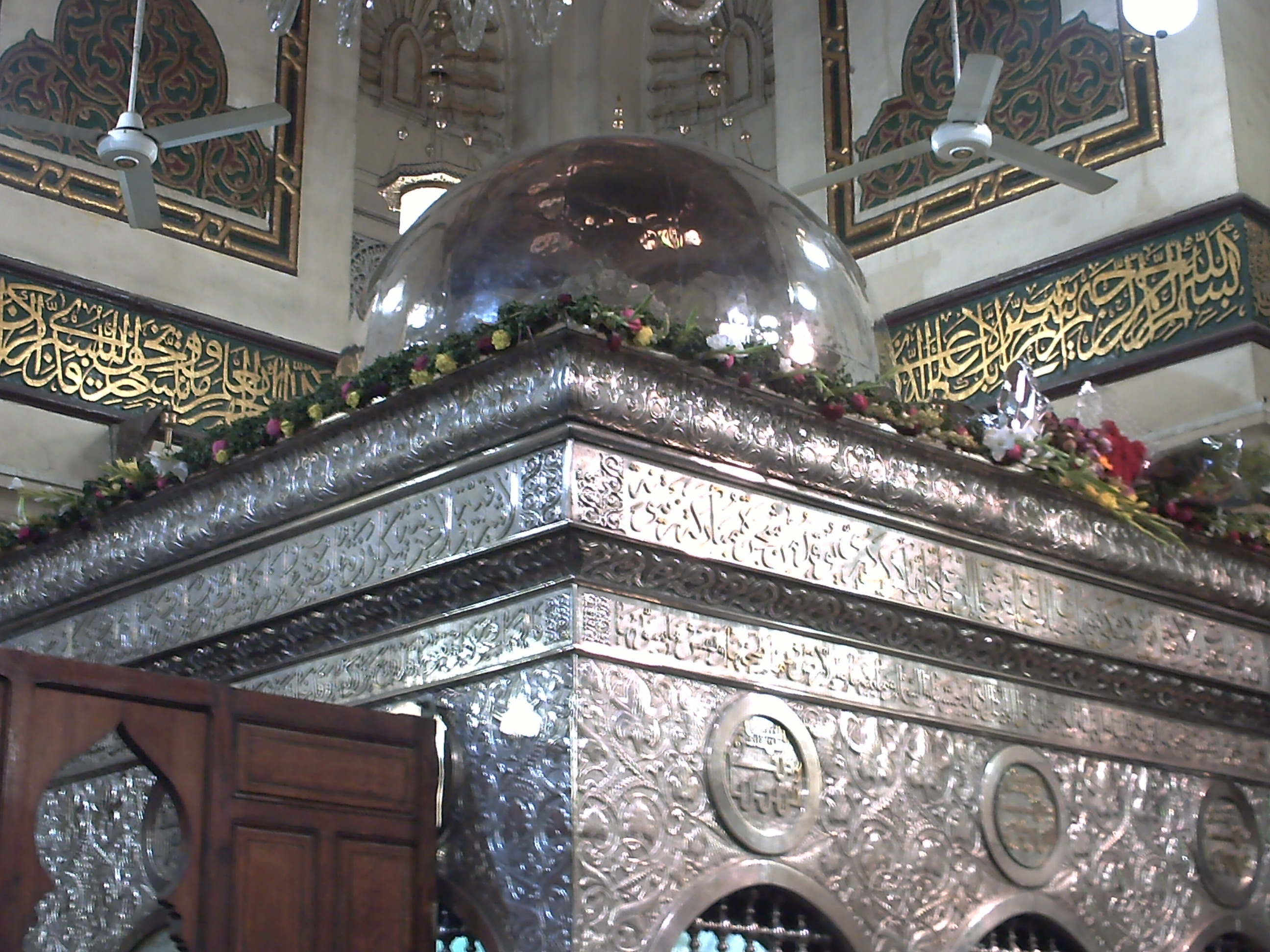 Photo of zarih of Maulatena Zainab located at Cairo,built by Dawoodi Bohra Dai Mohammad Burhanuddin